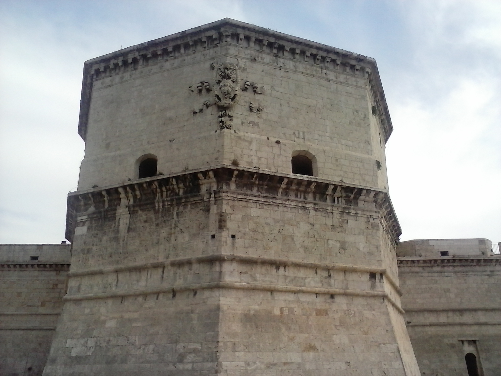 Can I use this photo? Read here for more informations.